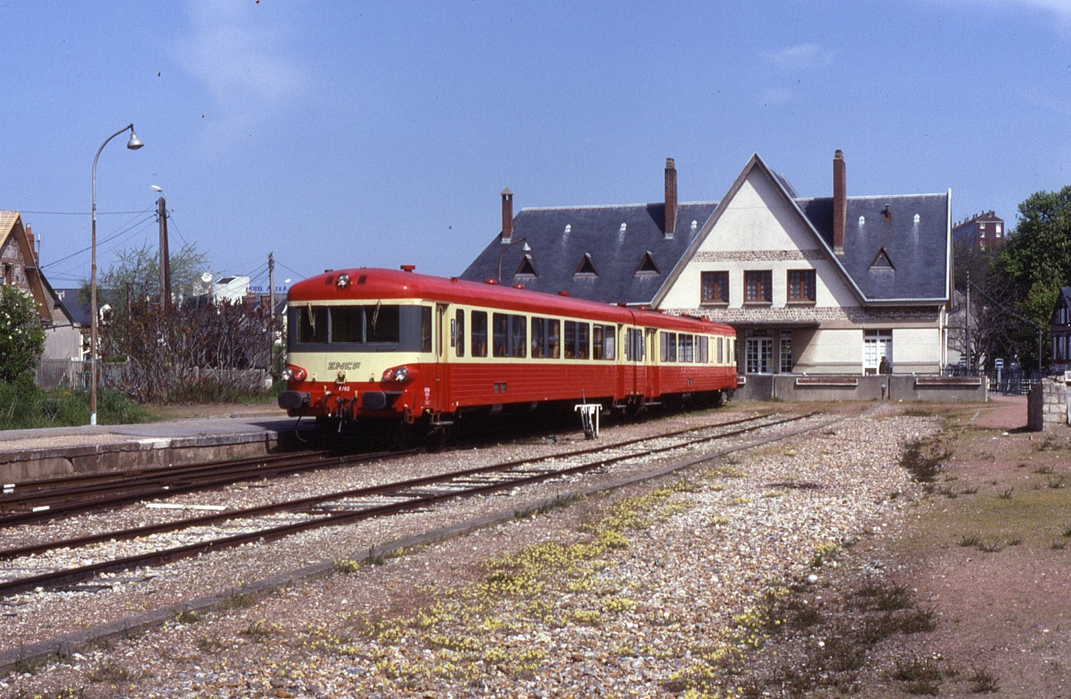 "Caravelle" DMUs X4872 & X8782 at the branch line terminus station St-Valery-en-Caux on 4 May 1992. 12:40 departure to Rouen-Rive-Droite. This line has no longer a rail service having lost this two years later in 1994.